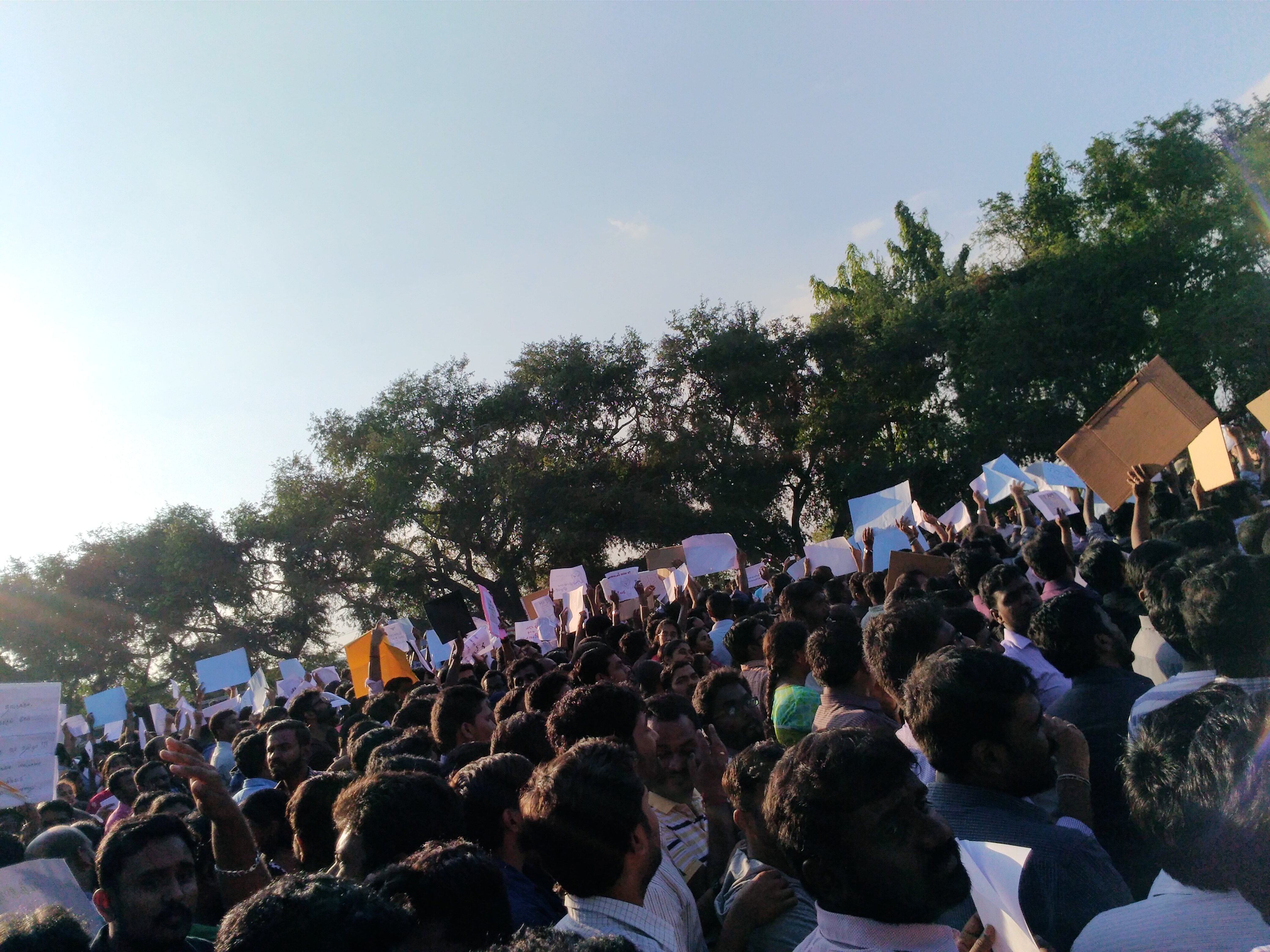 IT employees protesting against supreme court to bring back jallikattu sport.